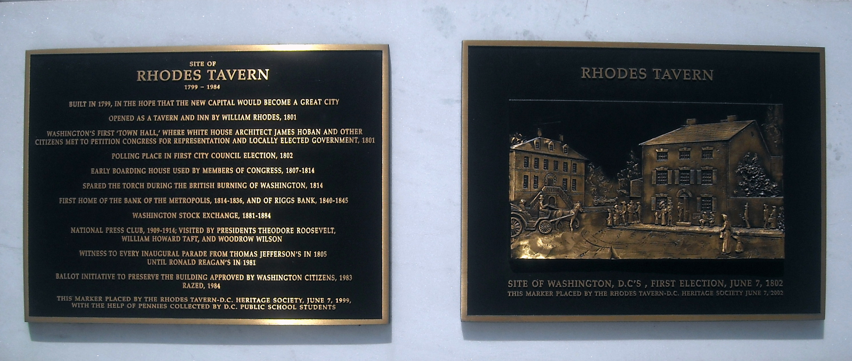 A plaque located on the northeast corner of 15th and F Streets, NW in Downtown Washington, D.C. It commemorates the former site of Rhodes Tavern, a Washington landmark that was constructed in 1799. Although Rhodes Tavern had been added to the National Register of Historic Places on March 24, 1969, it was razed in 1984 and replaced with Metropolitan Square.